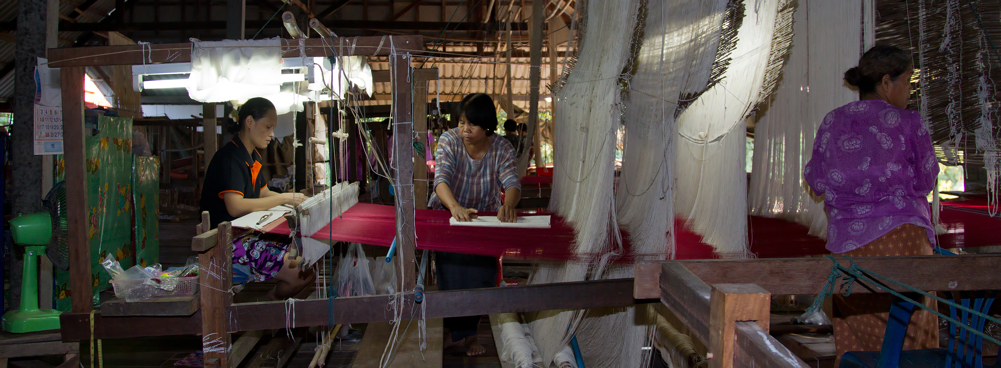 Three people weaving silk at a loom, Ban Tha Sawang, Surin Province, Thailand